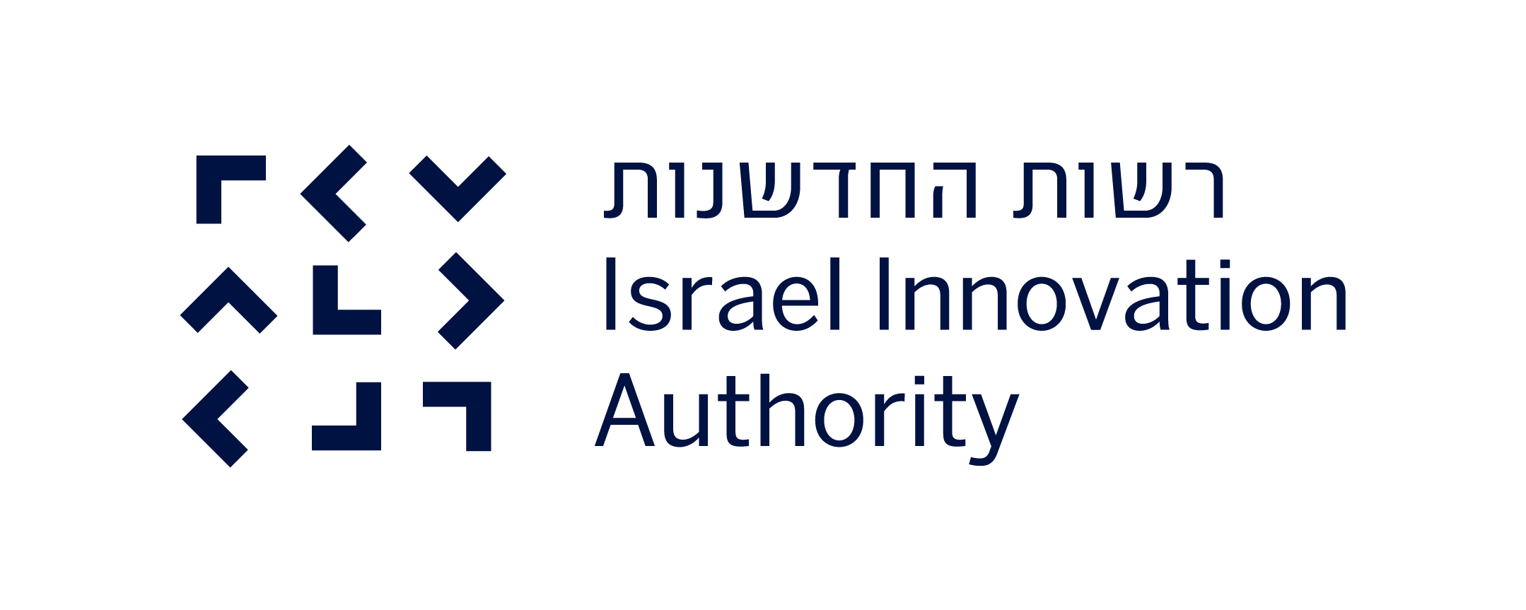 Israel Innovation Authority logo